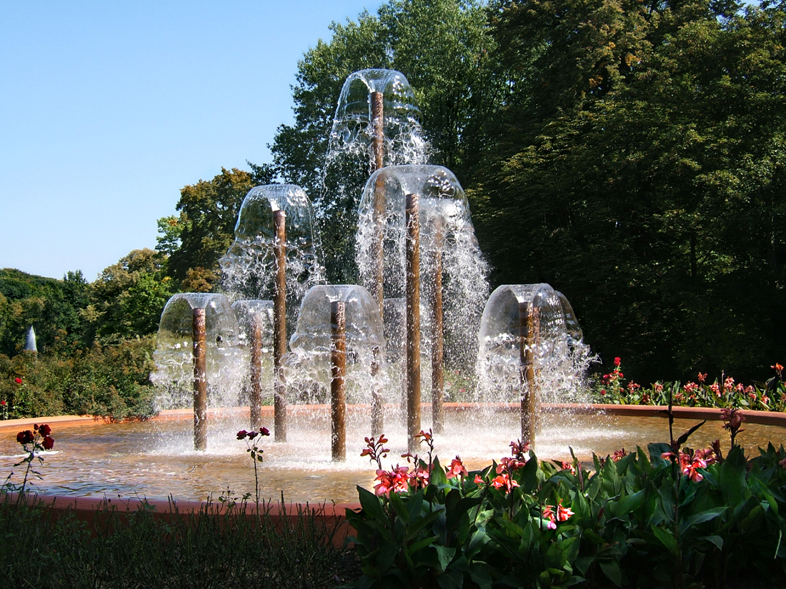 Fountain in Bad Homburg vor der Höhe, Germany